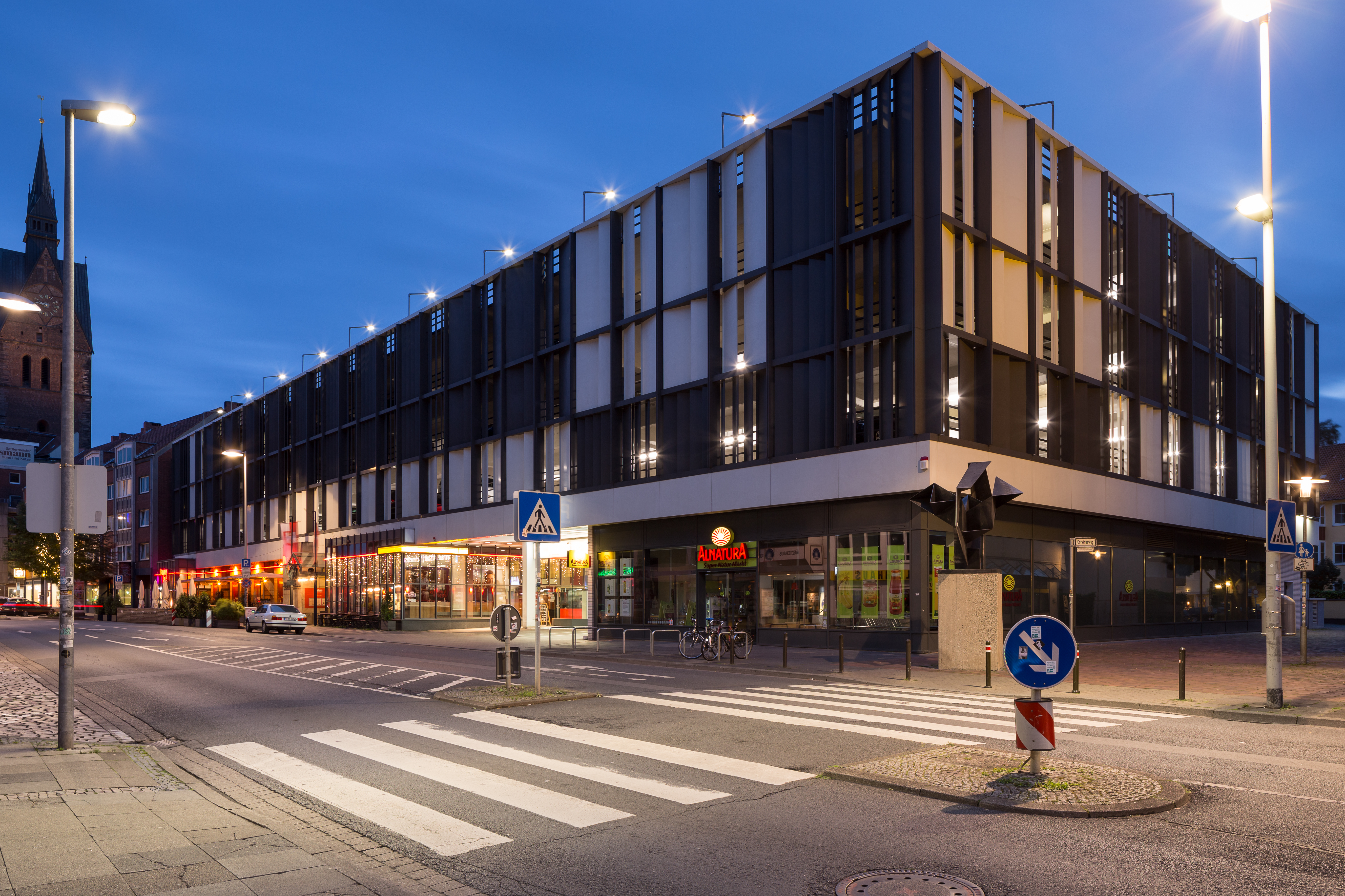 Car park building located at Schmiedestrasse in Mitte quarter of Hannover, Germany.